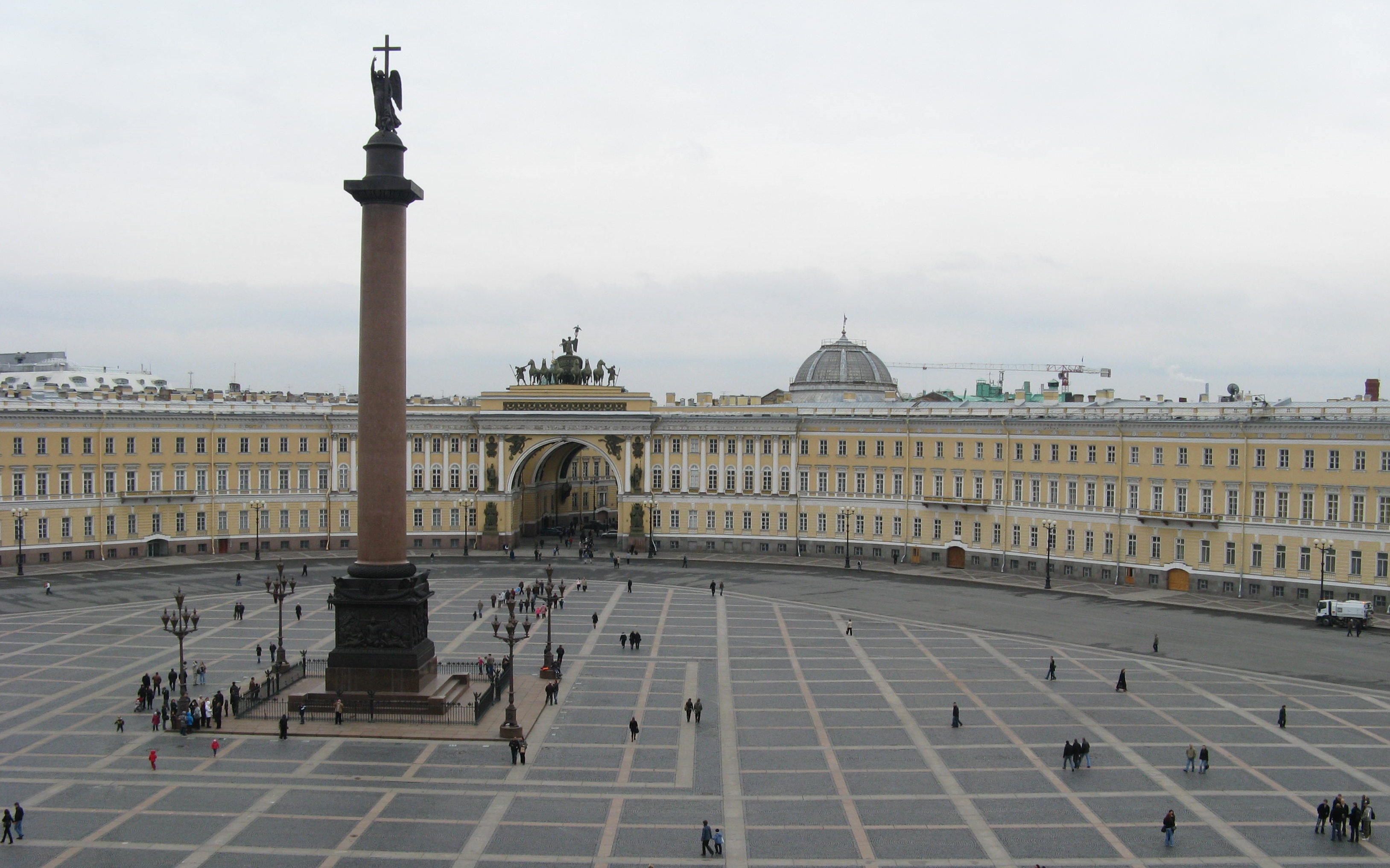 Column of Alexander I in Palace Sqaure in Saint Petersburg